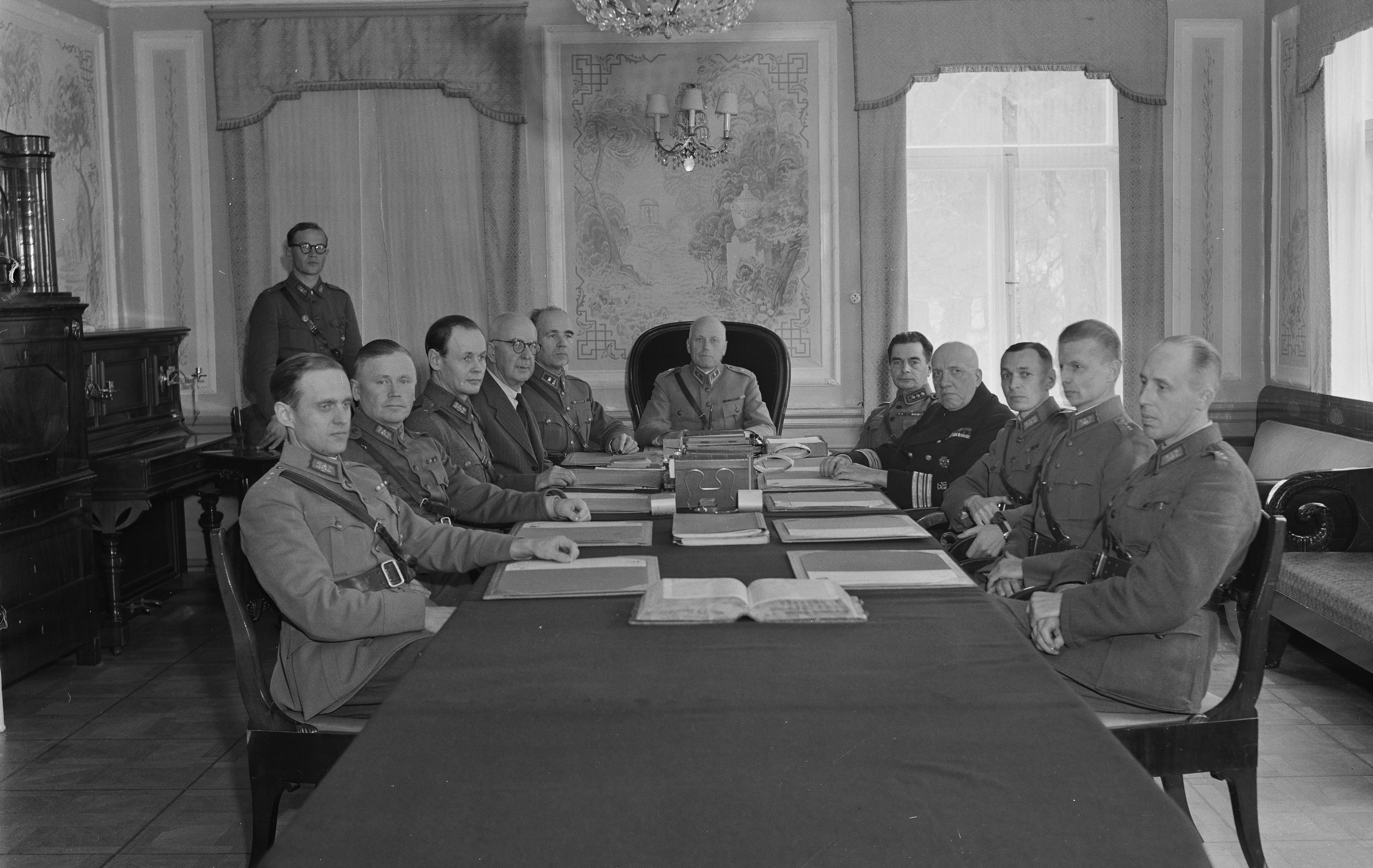 Sotaylioikeuden täysi-istunto Saaren kartanossa.